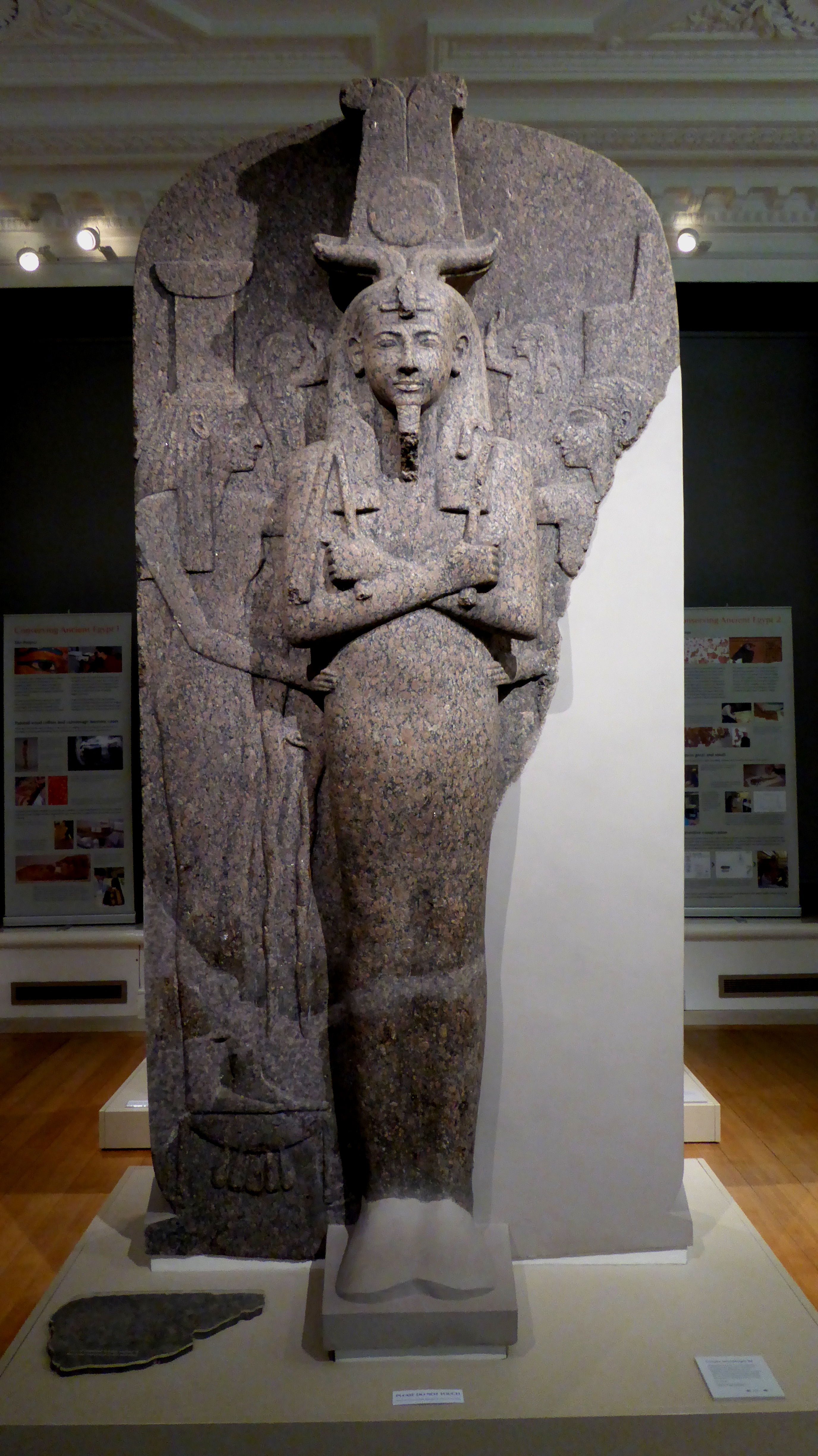 The granite sarcophagus lid of Pharaoh Ramses III. Here, the pharaoh is presented as Osiris, and is flanked by Isis and Nephthys, as well as two cobras. On display in the Fitzwilliam Museum, Cambridge.